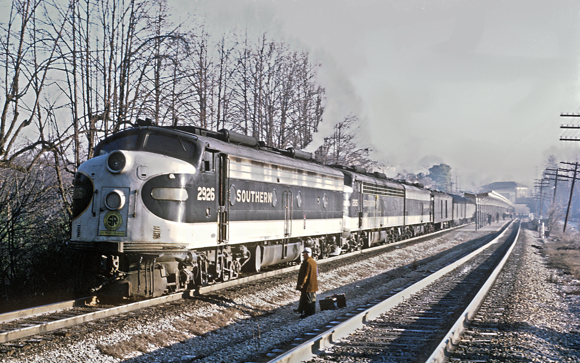 A Roger Puta Photograph